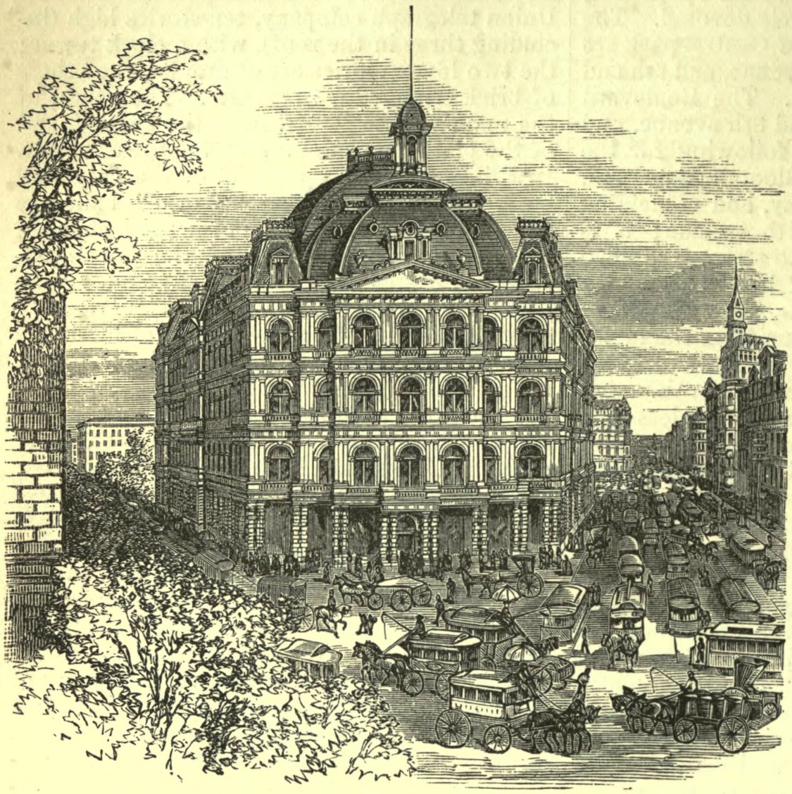 Drawing/wood engraving of the "New Post Office" (1879) in New York City. It also housed courts of the United States. It was located at the southern extremity of the City Hall Park. Doric and Renaissance architecture.